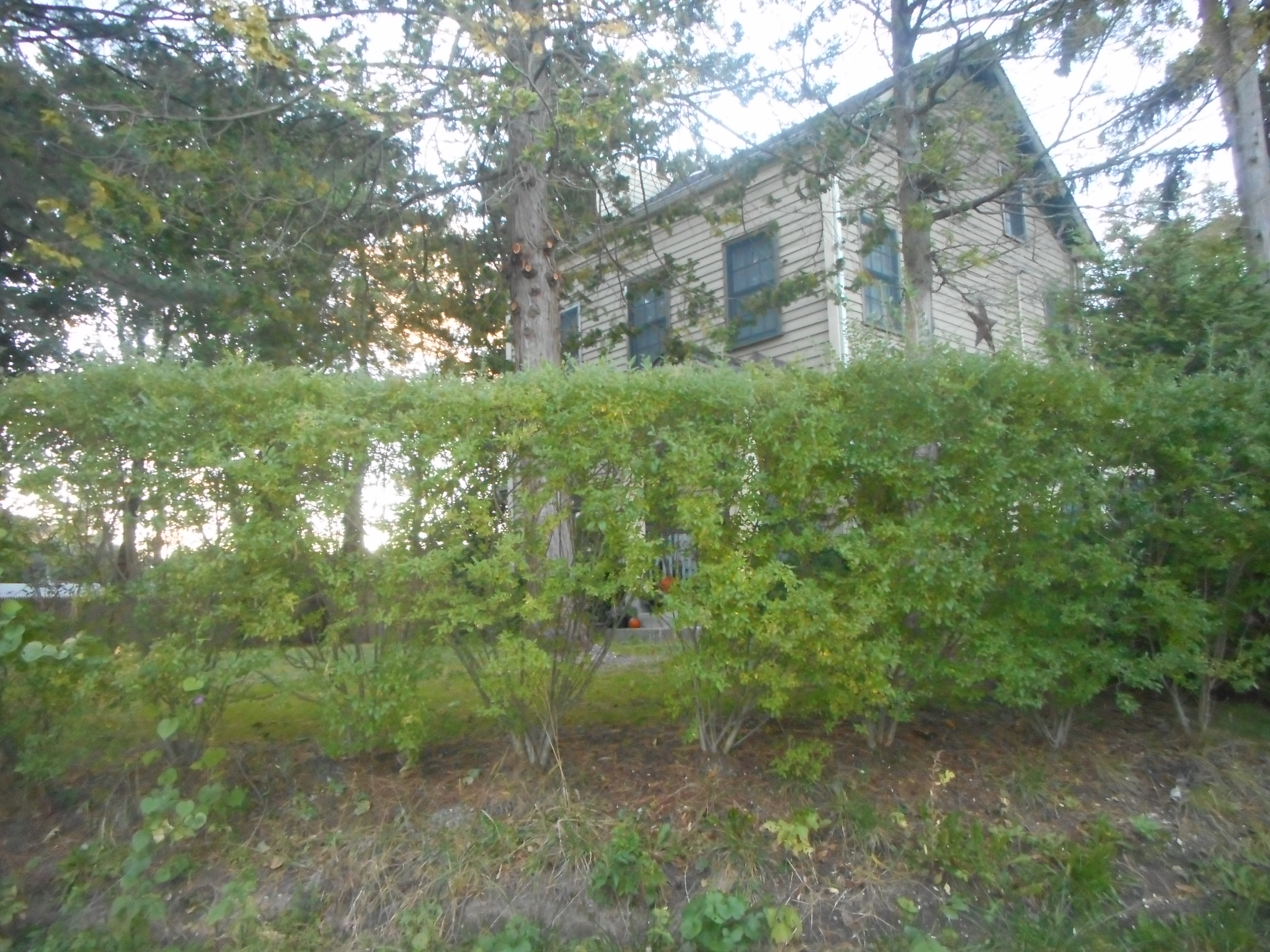 Second attempt to capture the NRHP-listed Henry Williams House at 43 Mill Lane in Halesite New York. NRHP incorrectly considers this house to be in the hamlet and census-designated place of Huntington, but despite the fact that Halesite is located in the Town of Huntington, and this segment of Mill Lane actually straddles the border between Halesite and Huntington, the house is specifically in Halesite.